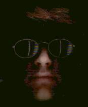 Small self portrait with scanner.